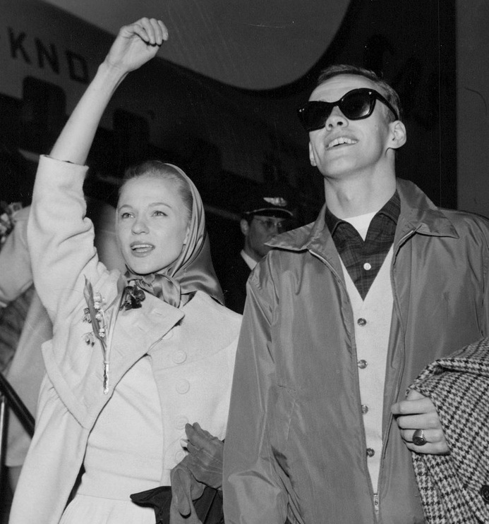 Gerd Andersson waving goodbye at Bromma with Caj Selling